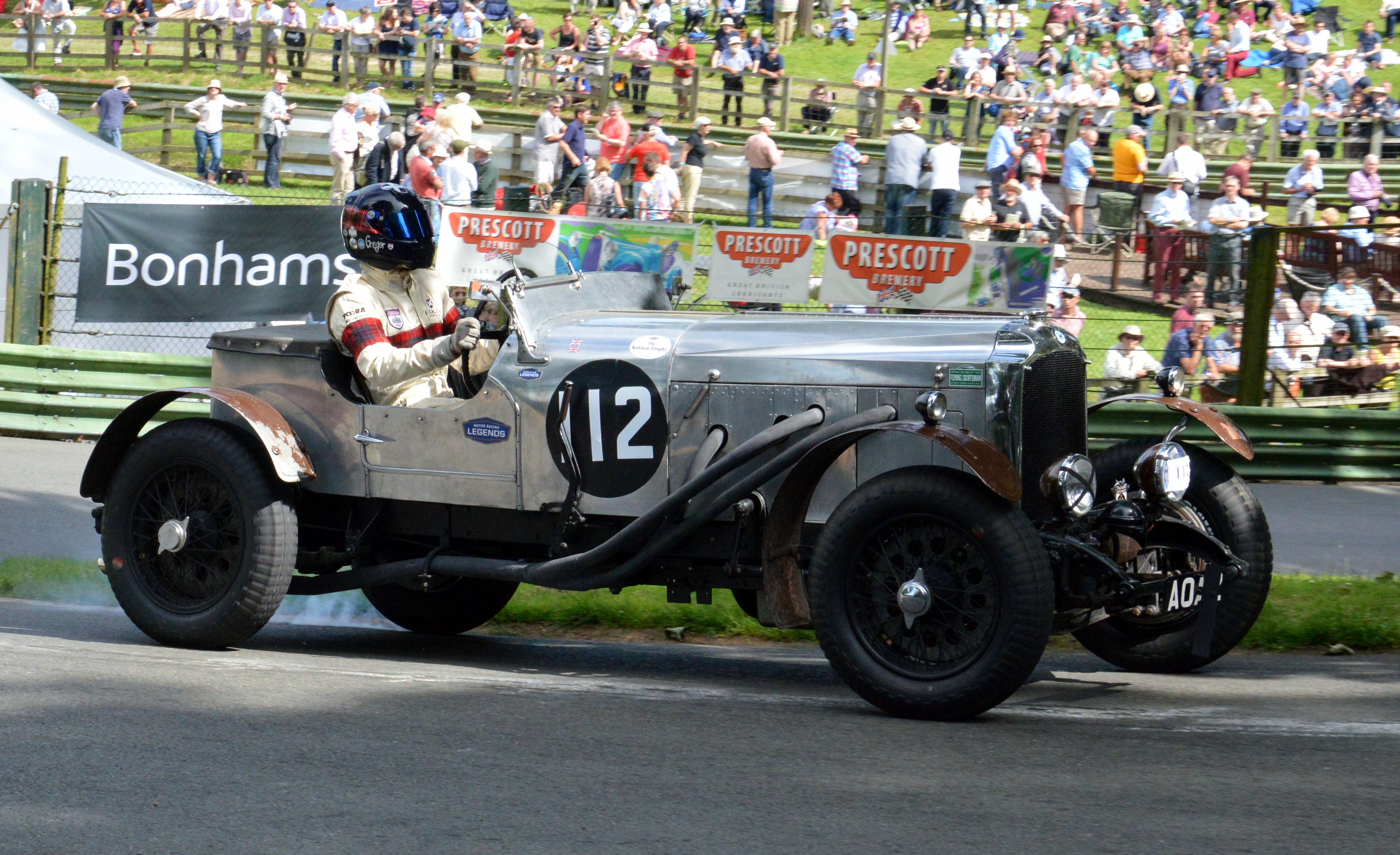 Gregor Fisken's 4250cc 1926 Vauxhall 30-98 OE on a timed run at the VSCC hill climb at Prescott